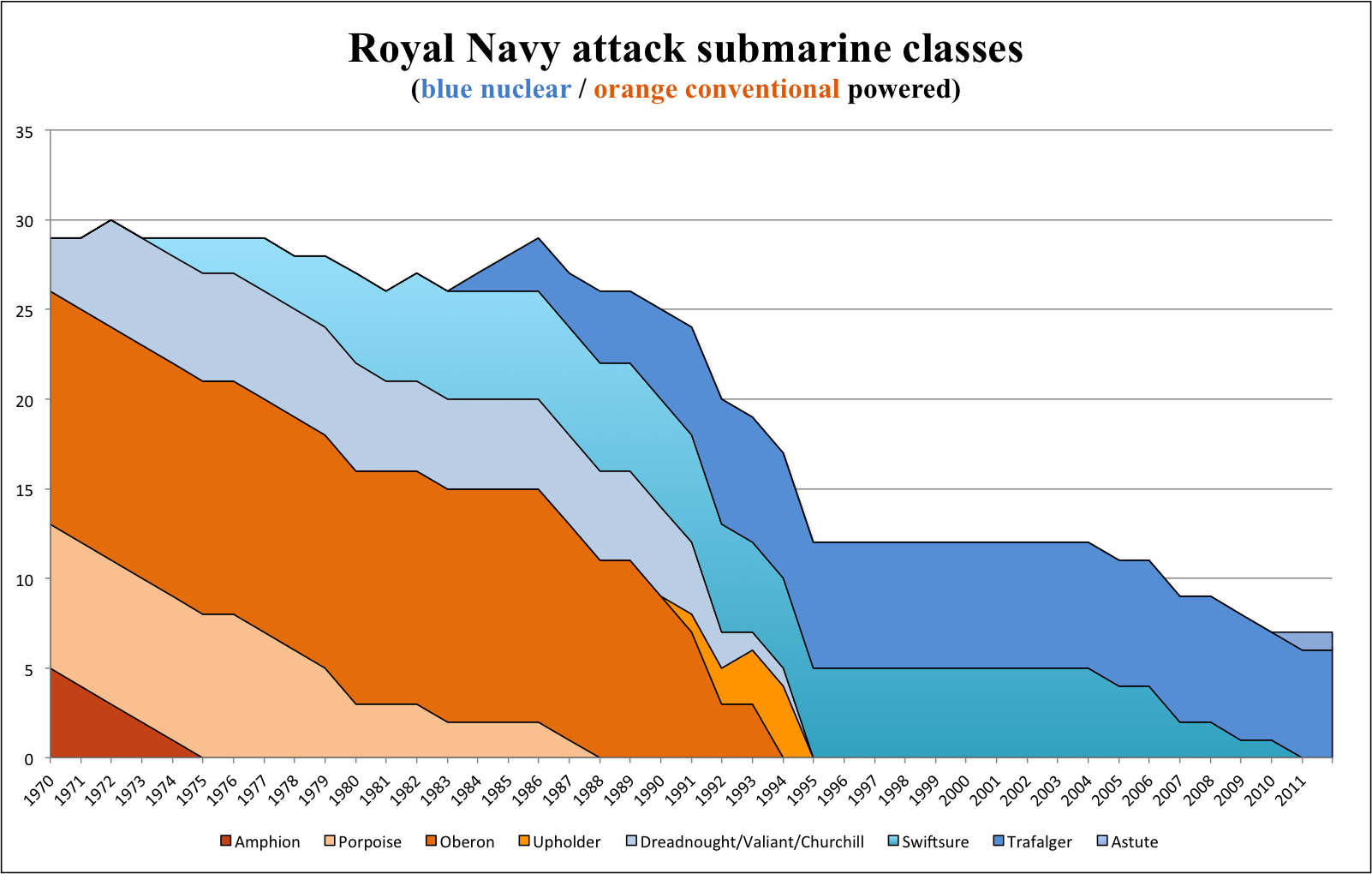 Development of the different Royal Navy attack submarine classes since 1970. Only commissioned and active vessels ar included, consequently training and reserve boats are excluded. The numbers of each year are for January, 1. The graph shows the sharp decline in submarine numbers and the decommissioning of all conventional submarines.